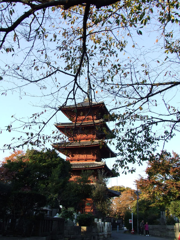 The Five-storied Pagoda at Ikegami Honmon-ji in Ota-ku, Tokyo.